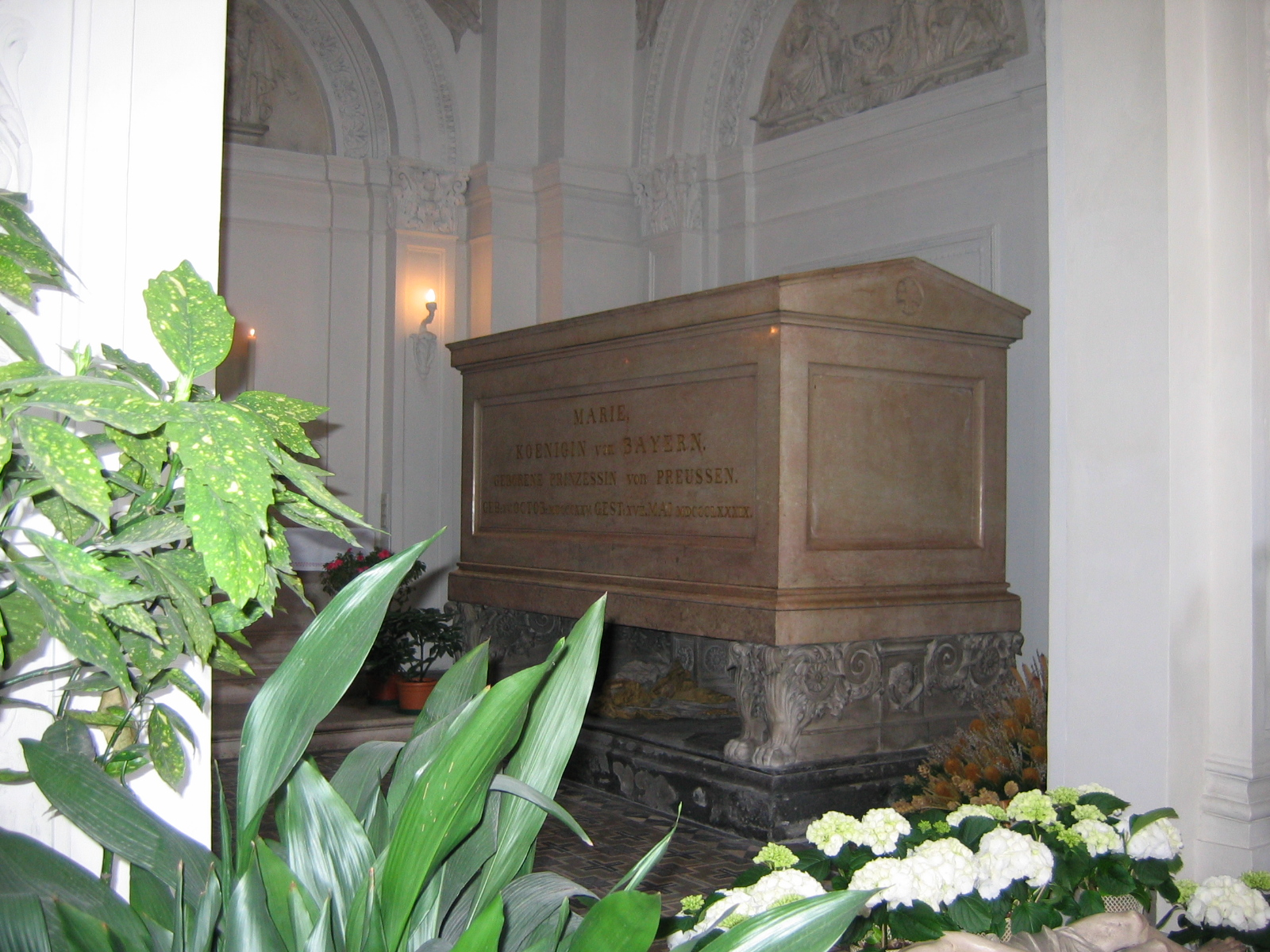 Maria's tomb in Teatinerkitche, Munich